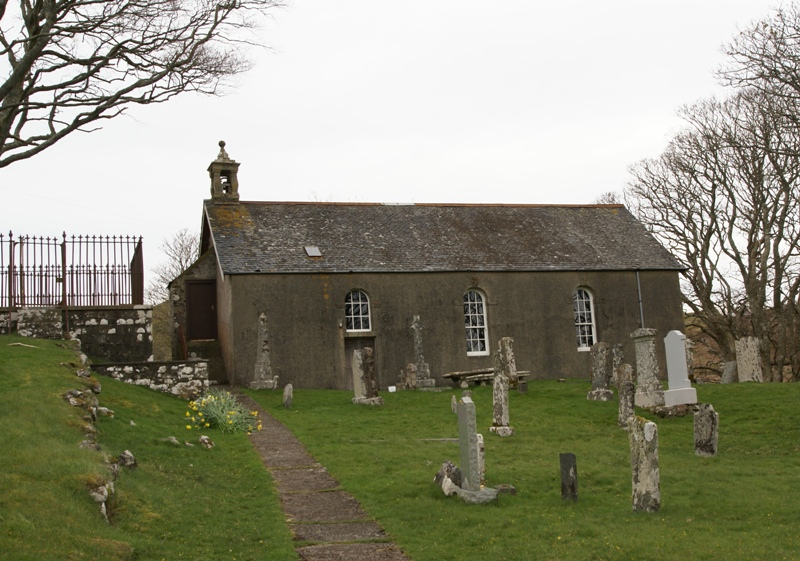 Kilninian Church, Mull, Argyll and Bute, Scotland.